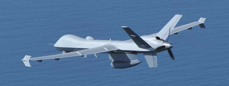 U.S. Customs and Border Protection's (CBP) & U.S. Coast Guard's (USCG) Guardian Unmanned Aerial System (UAS)